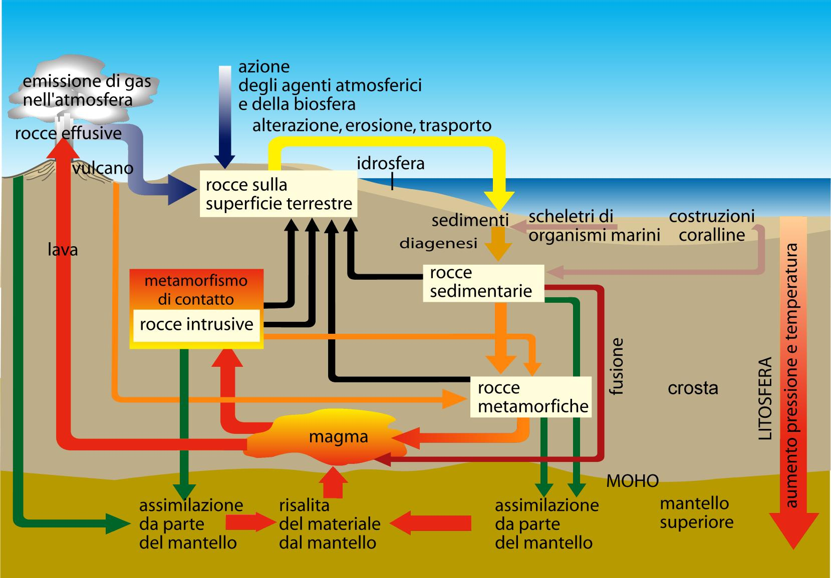 The thicker arrows indicate the main cycle. In yellow the phenomena occurring on the surface, in blue the intractions with atmosphere and biosphere, in ocher the digenesis, in orange the metamorphism, in red the molten rocks, in black the ascent of the rocks and in green their sinking in the mantle (in subduction zones)